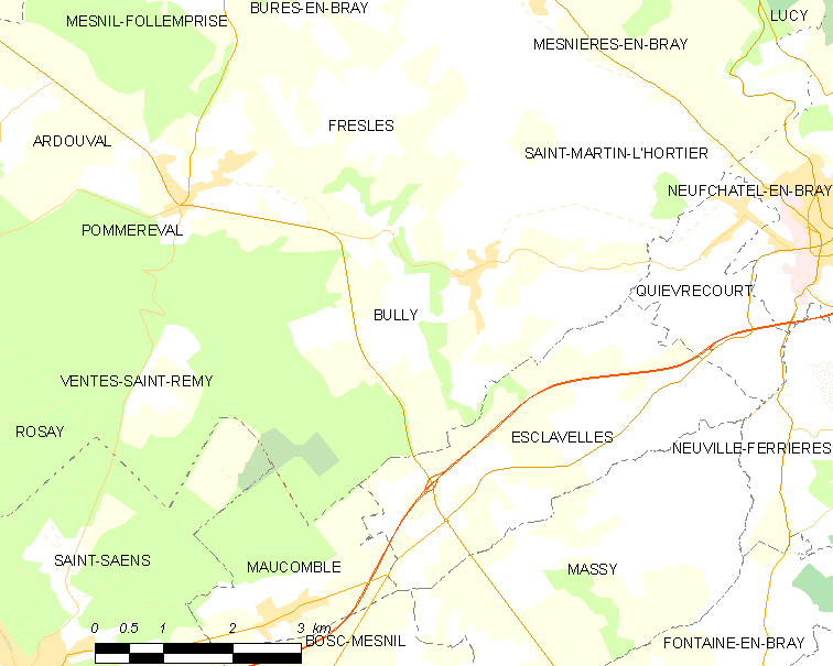 Map of French municipality Bully